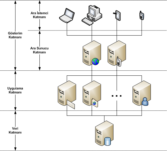 This file depicts a four-tier groupware architecture.